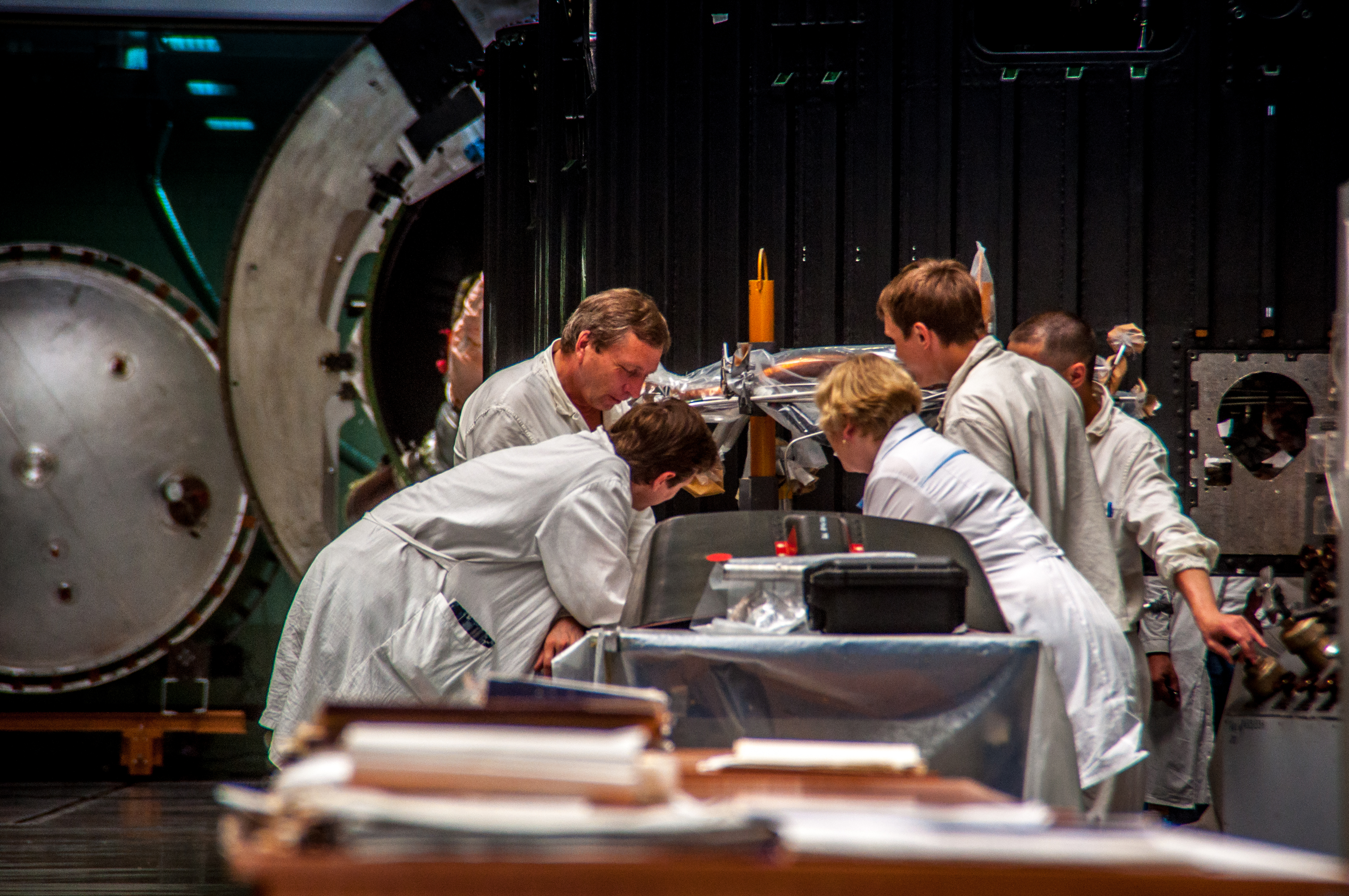 Scientists and engineers of Omsk manufacturing union "Polyot". The Soviet era spece factory is being reconstructed for serial production up to 100 universal rocket modules per year and for the complete assembly process of perspective Angara rockets.